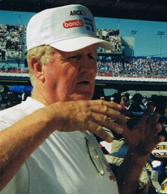 former NASCAR driver James Hylton (left), teaches Jim Lamorauex (right) how to qualify at Daytona 1999